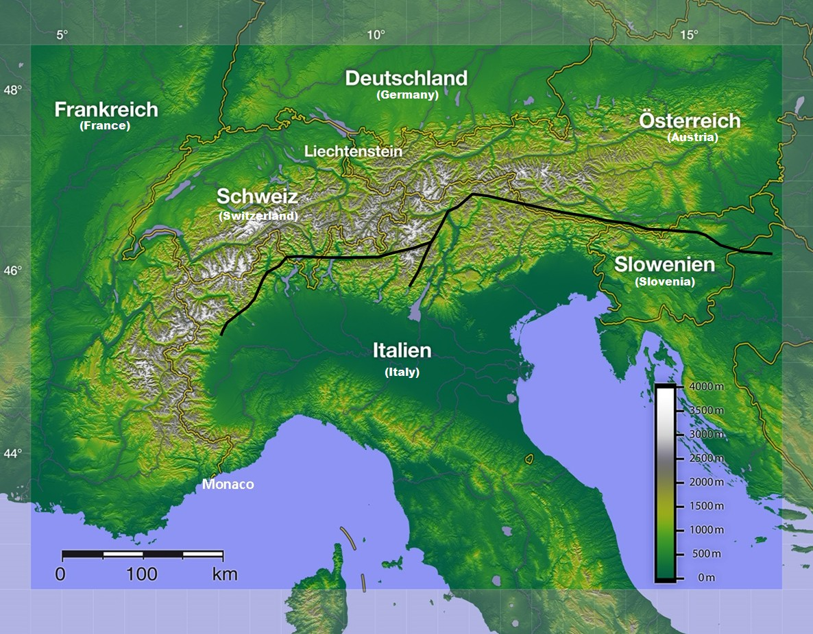 Relief map of the Alpine realm and adjacent regions, with indication of the Periadriatic Seam (black line)